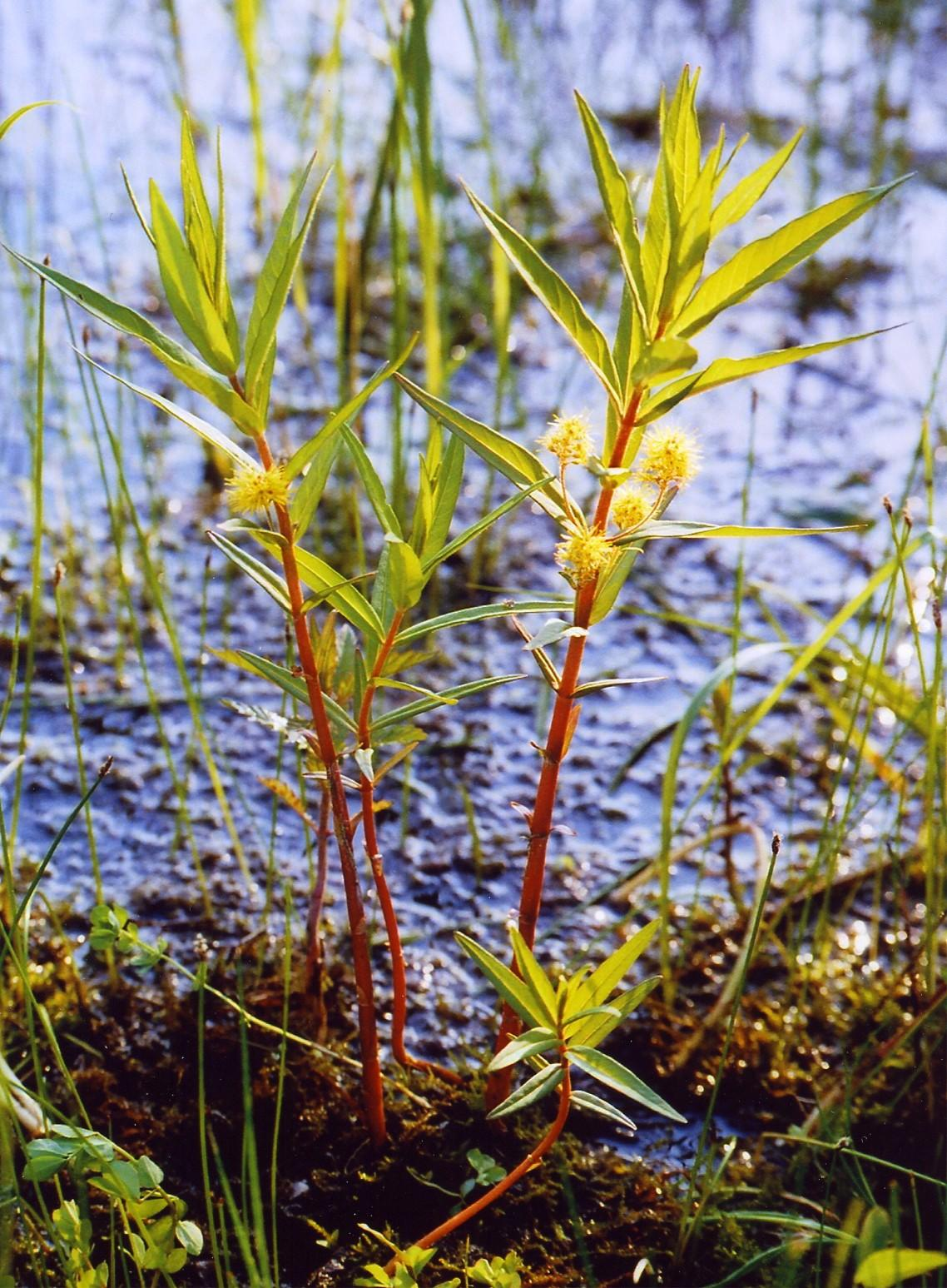 Flowering Lysimachia thyrsiflora at the banks of a pond.